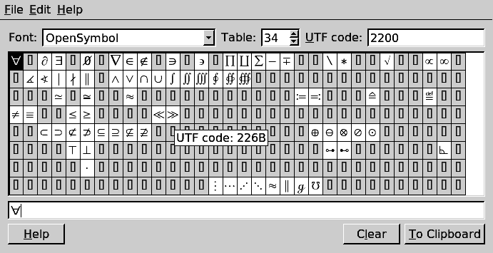 KCharSelect shows Unicode Mathematical Operators character block. The symbol U+2200 ∀ is highligted (reversed) and entered to the input buffer at the bottom.